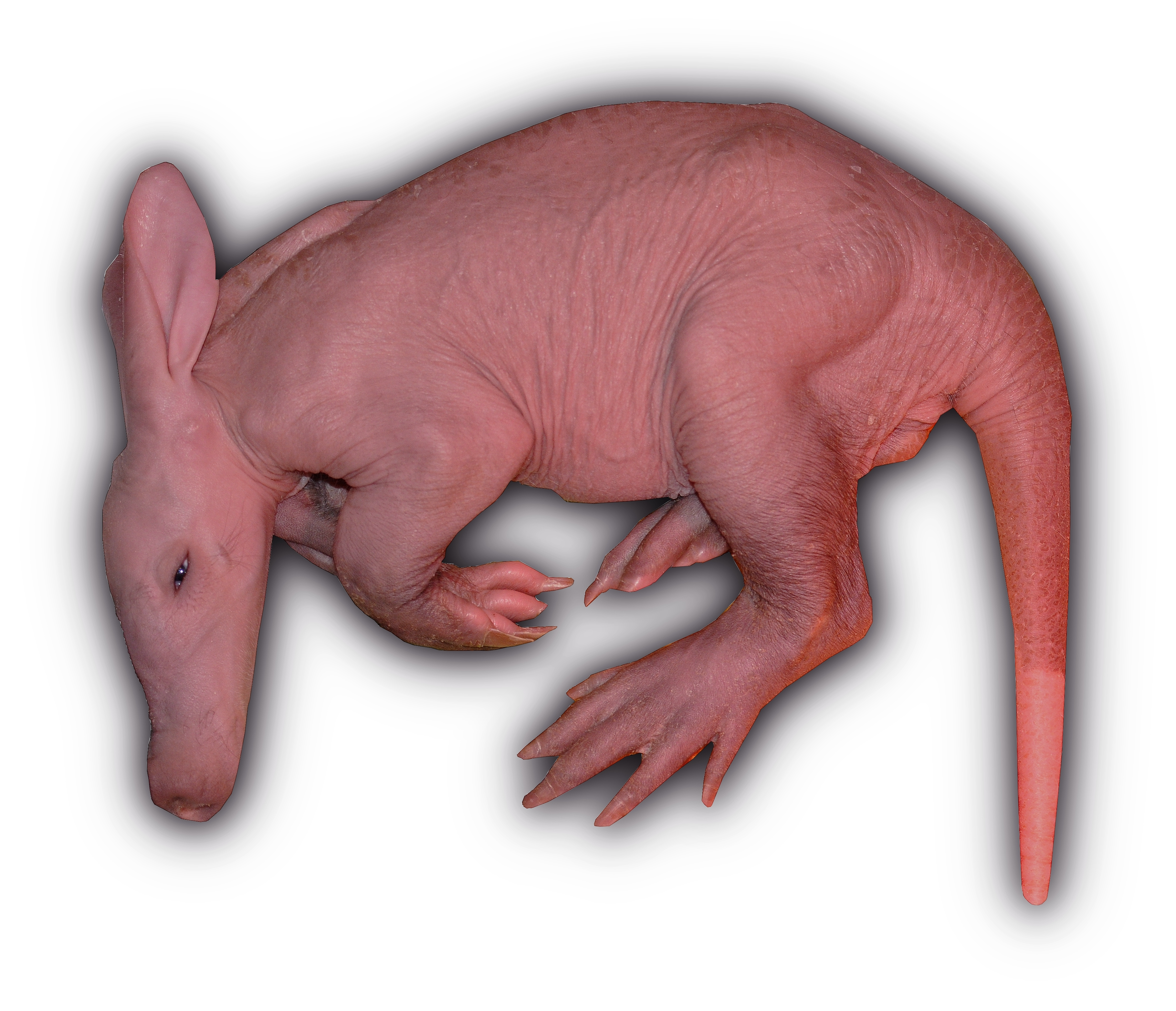 Youngster of Orycteropus afer.